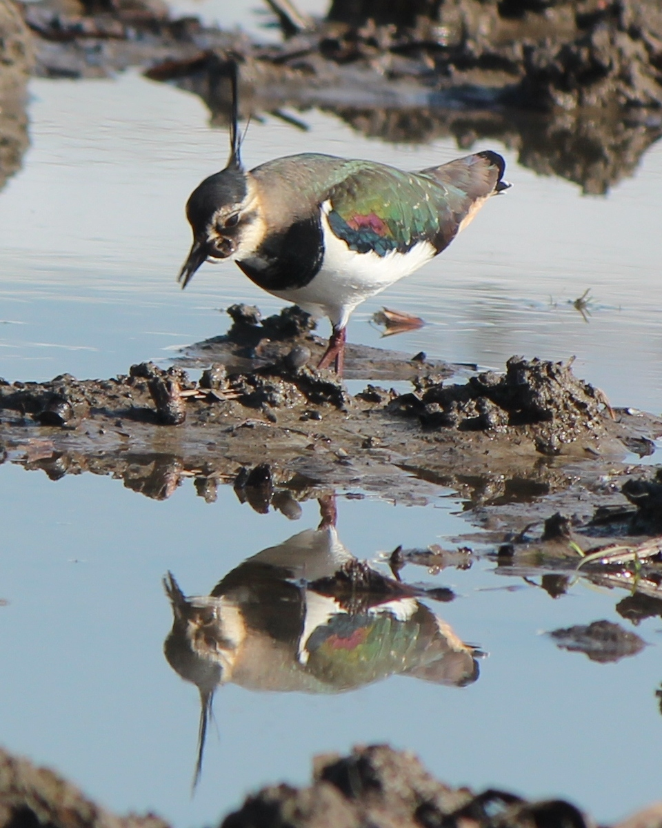 Vanellus vanellus (Northern Lapwing), eating earthworm, in Japan.